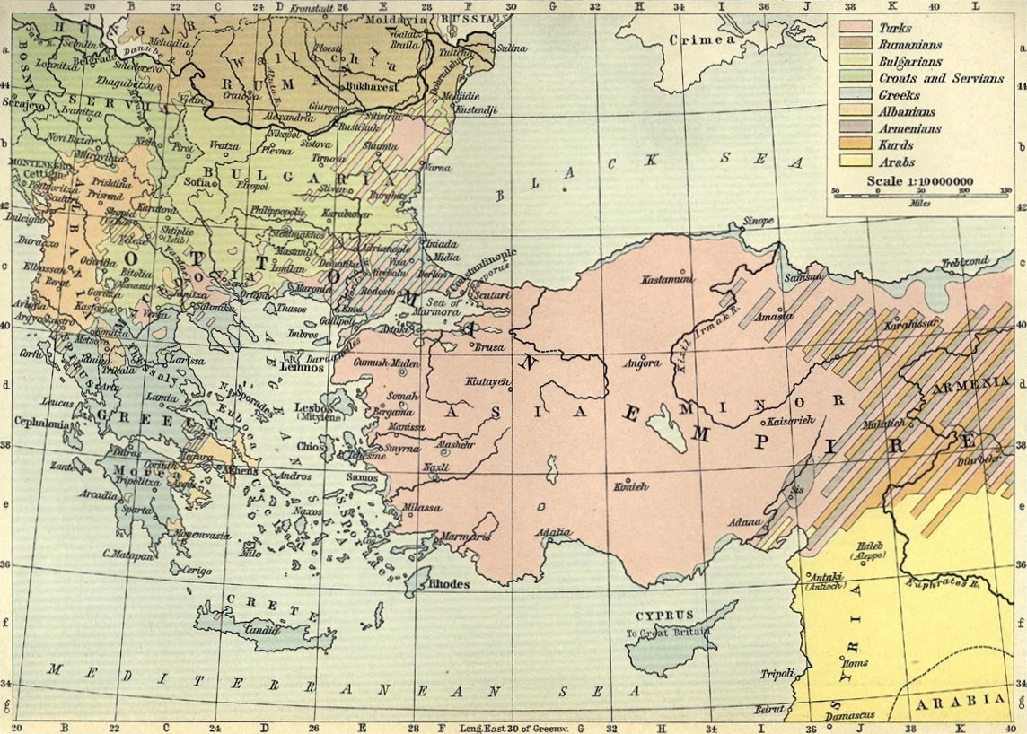 Ethnic groups in the Balkans and Asia Minor as of early 20th Century